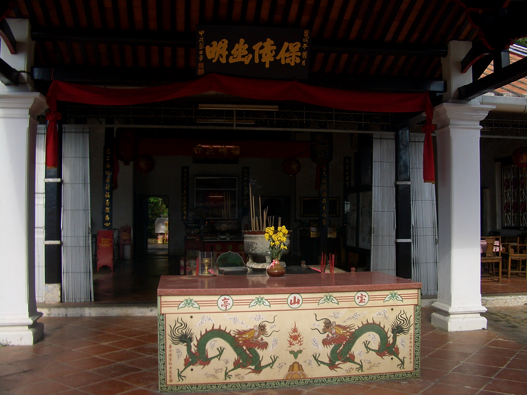 Poh San Teng (Baoshan Ting) Temple, Melaka.